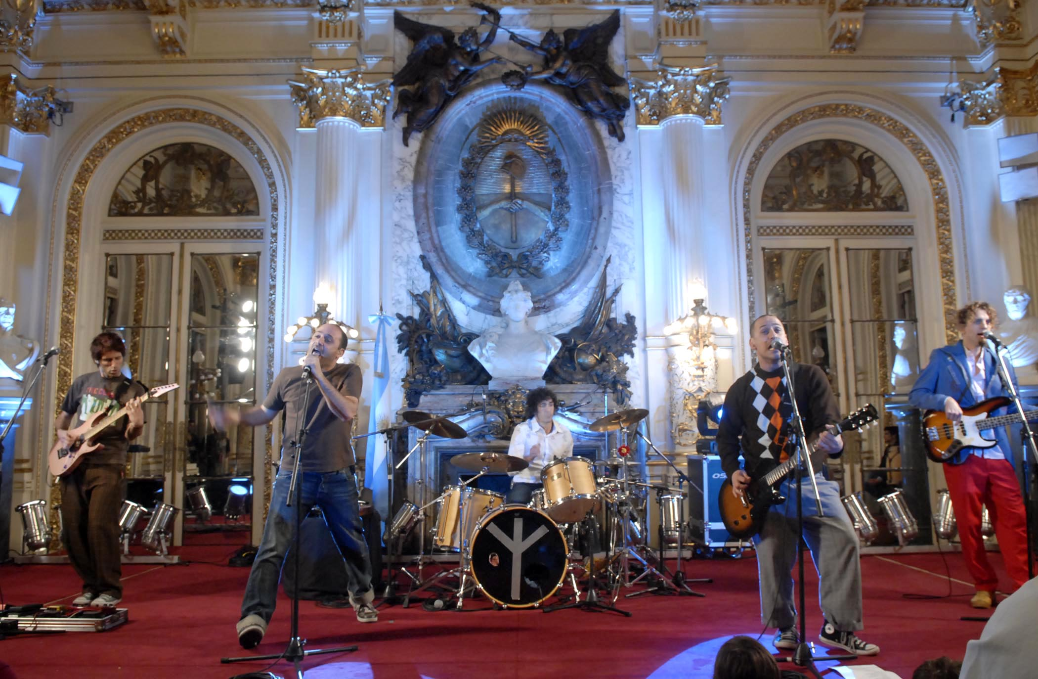 Argentine rock band called Árbol at Casa Rosada.